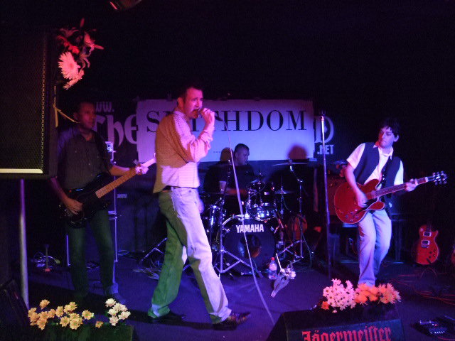 Smithdom - The Smiths Tribute Band. Live at the Witchwood 31st July 2010.